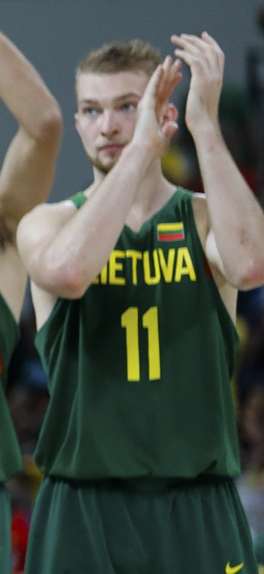 Domantas Sabonis during the 2016 Summer Olympic Games in Brazil.